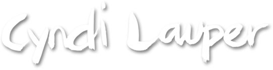 Logo 1556